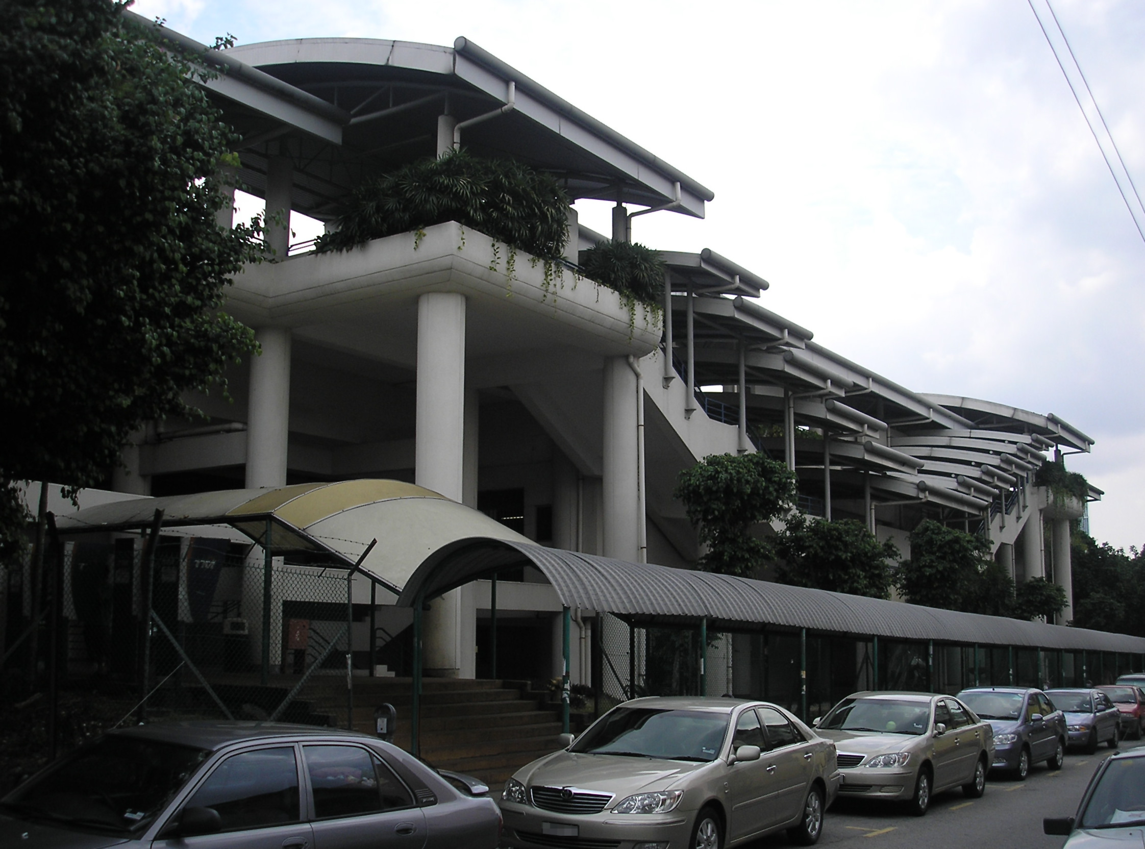 An exterior view (towards the west) of the Pudu station (Ampang Line) in Pudu, Kuala Lumpur, Malaysia.